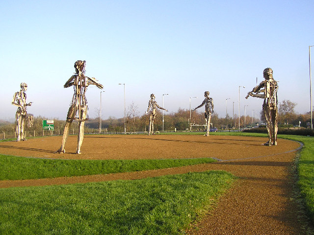 Let the Dance Begin (The Tinnies) Strabane can boast one of the most impressive pieces of sculpture in the North-West - the magnificient "Let The Dance Begin" sculpture, it is located off the roundabout leading towards Lifford. Each statue is approx. 10 metres tall. Just like the locals to nickname these as "The Tinnies"!